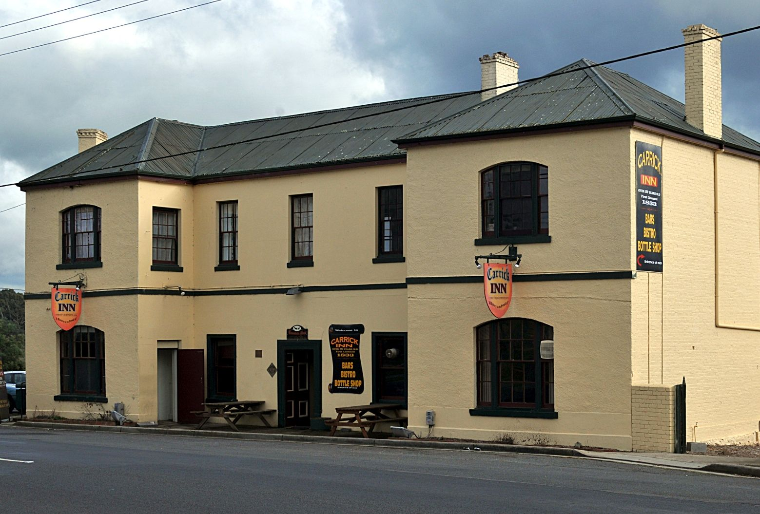 1833 Carrick Hotel, Carrick Tasmania